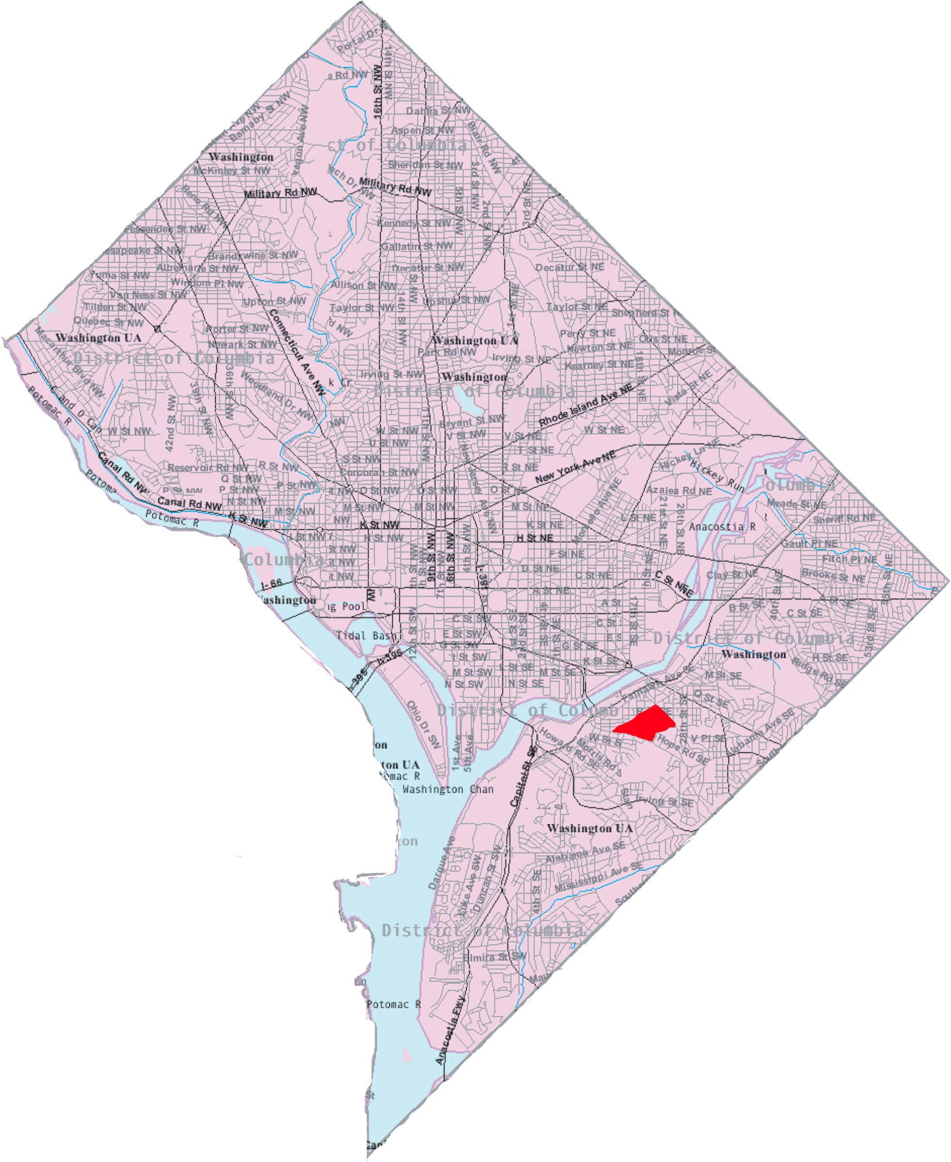 This image is a modified version of a self-generated reference map from the U.S. Census Bureau's American Factfinder at by Wikipedia user Msclguru.